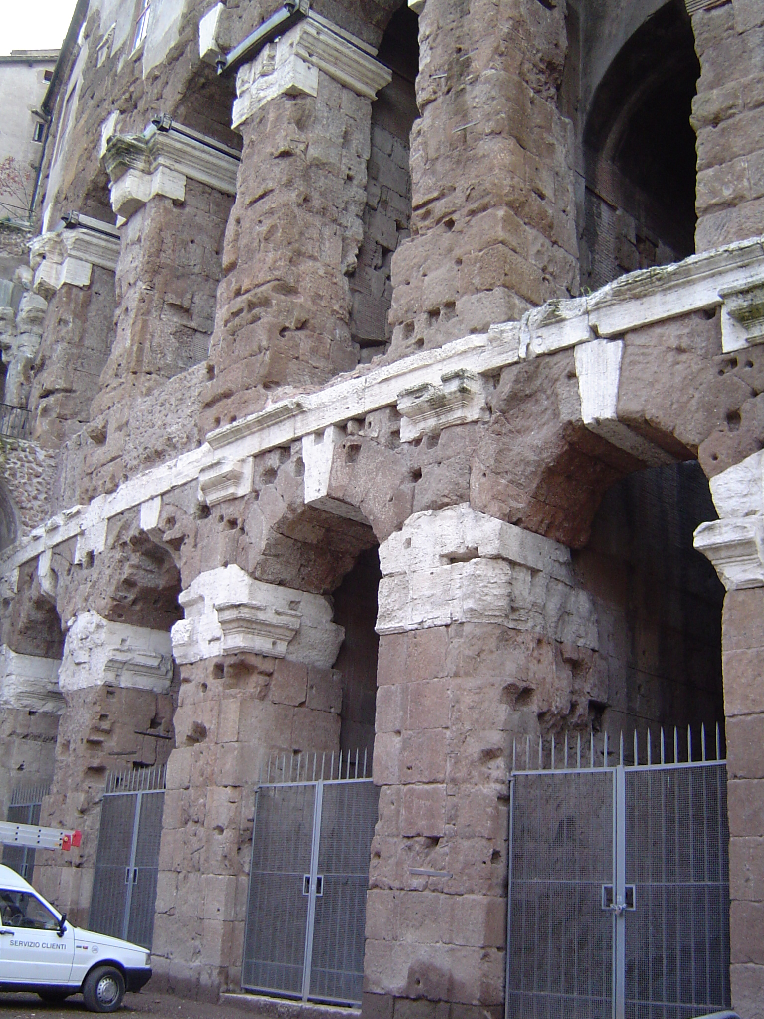 Detail of the Theatre of Marcellus, Rome - Italy Made by Joris van Rooden, the Netherlands on 06-01-2006